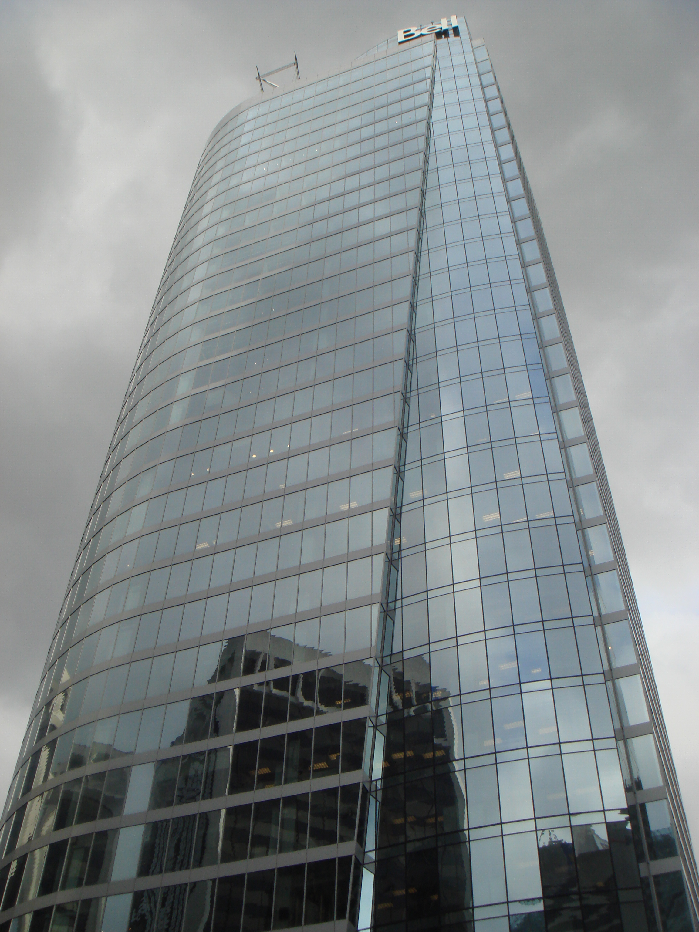 Bentall 5 in Vancouver, Canada